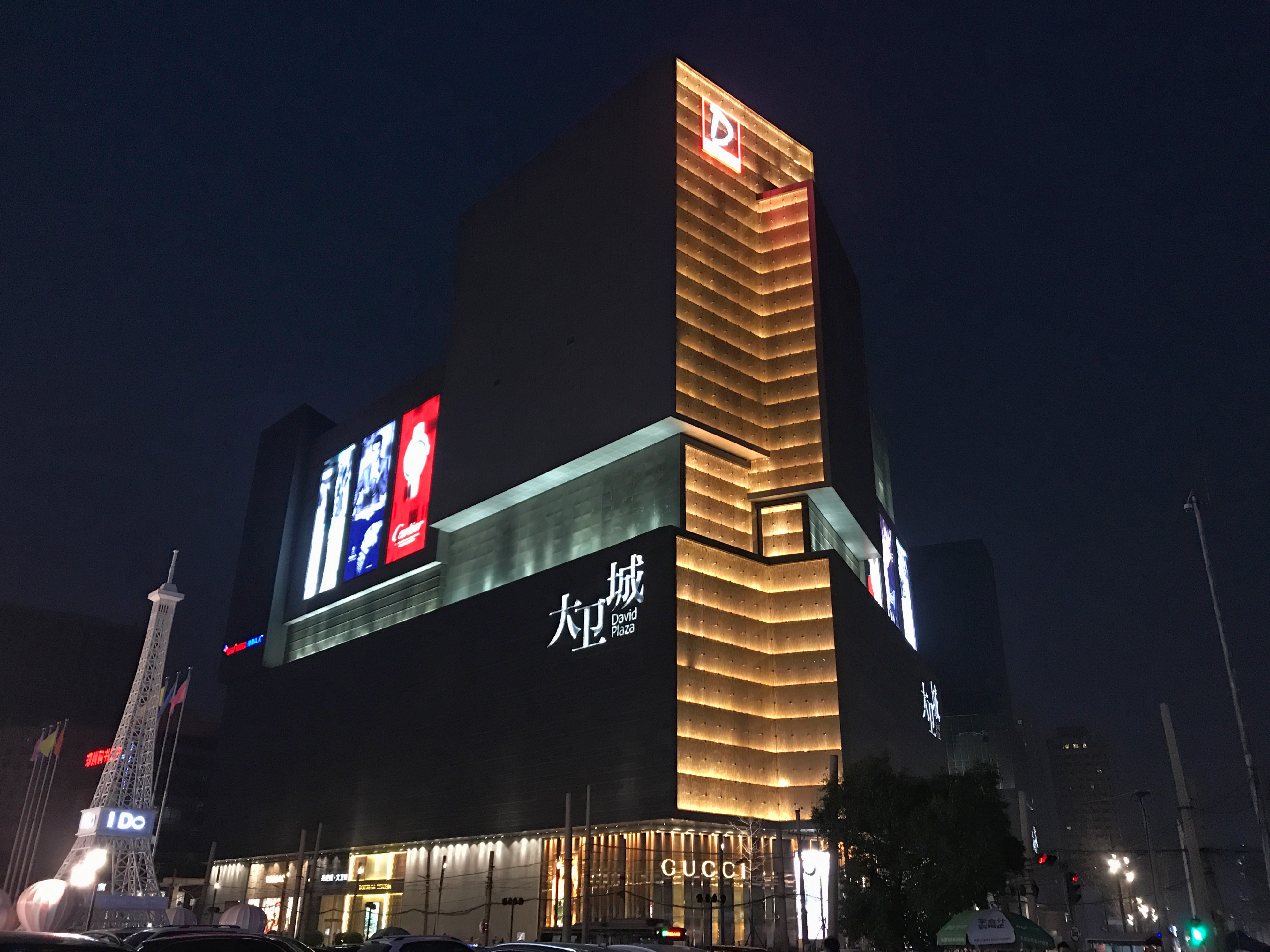 David Plaza at night